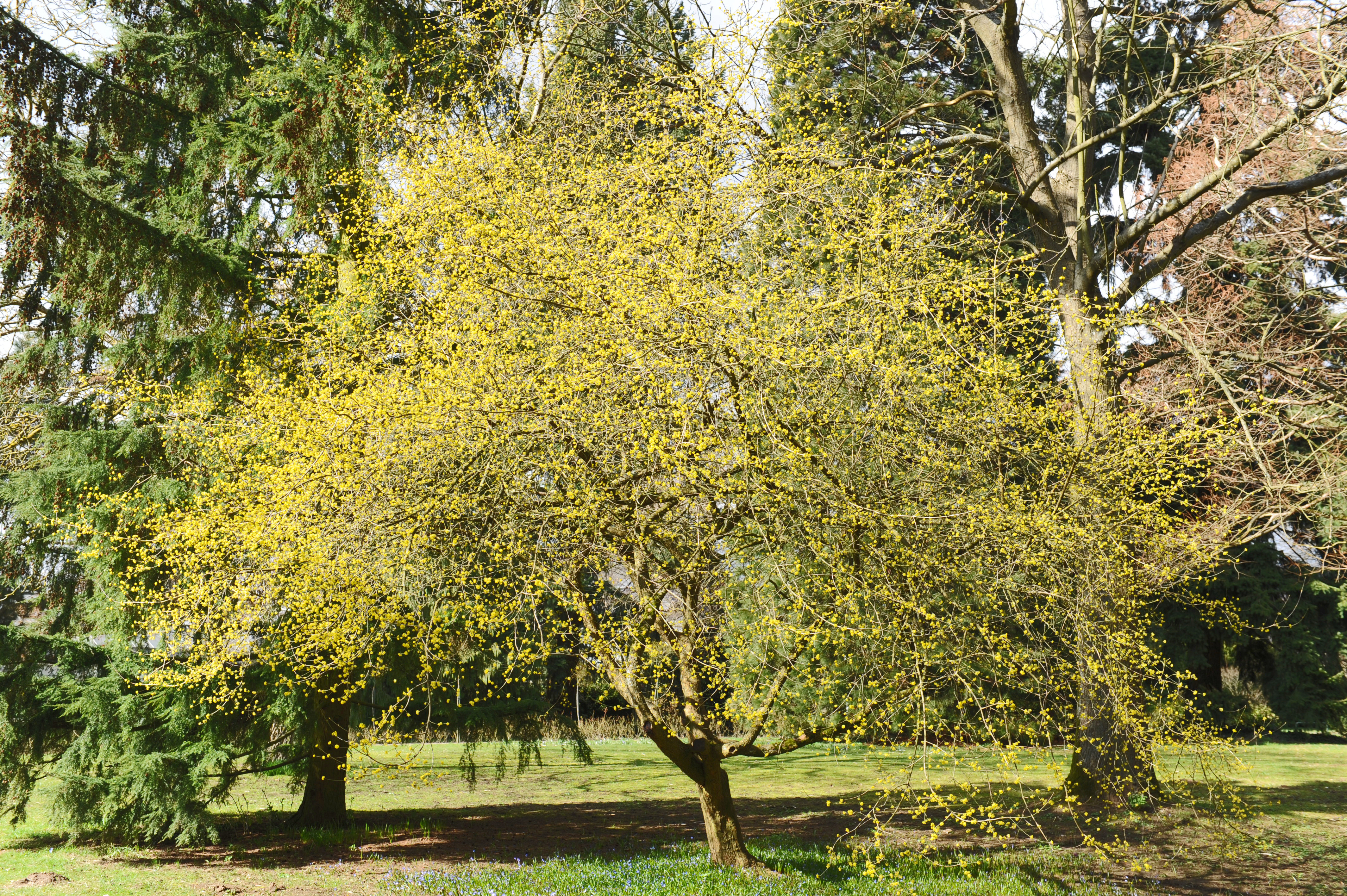 Cornus mas (European Cornel) covered in flowers in late March 2009. Locality: Parc Neuman in Luxembourg City